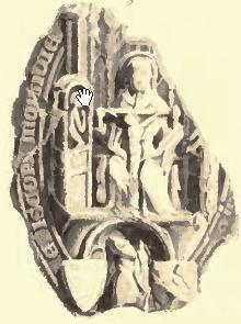 Seal of Alexander Bur, Bishop of Moray